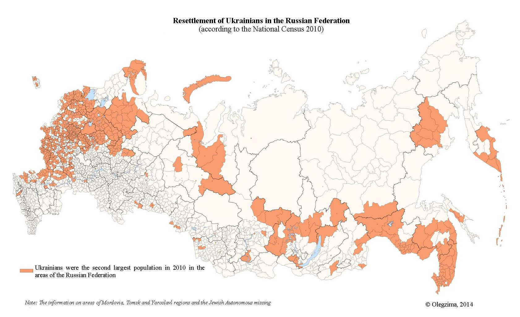 Ukrainian second largest population group in areas of Russia